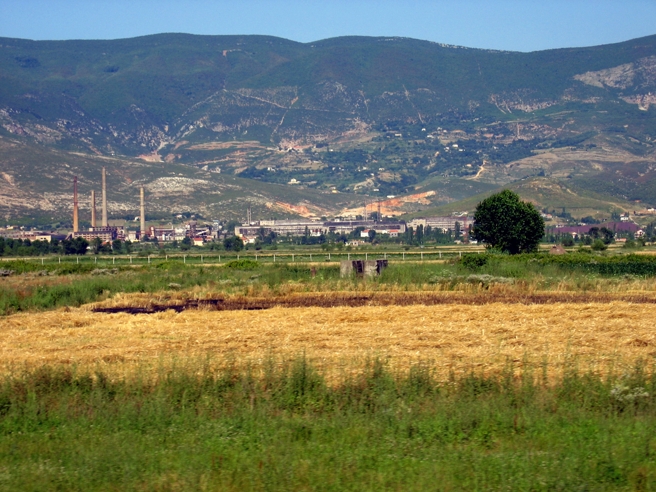 Description: Abandoned industry north of the town of Laç in Albania. Author: German Wikipedian De:User:Albinfo in autumn 2005 Licence: Creative Commons CC-BY-SA-2.5